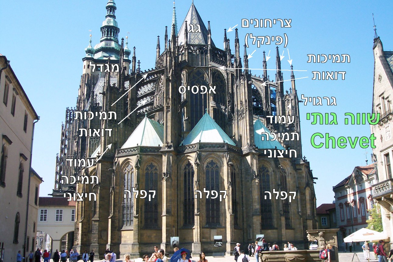 Parts of the Gothic Chevet (St. Vitus Cathedral